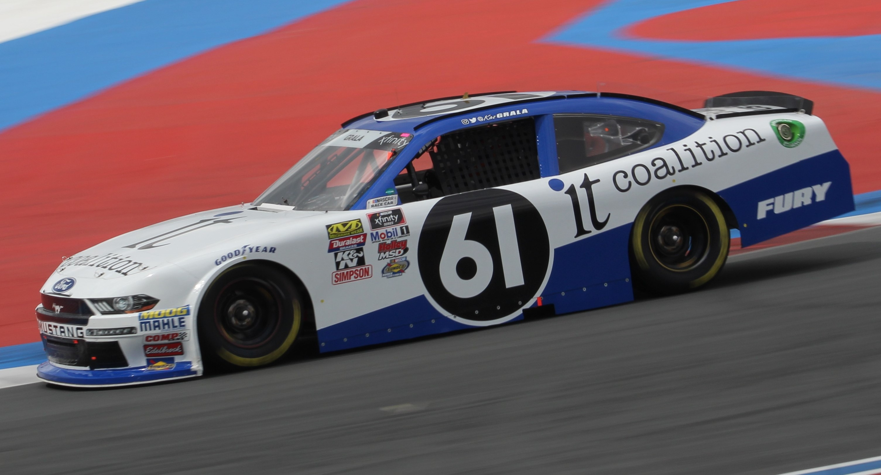 Kaz Grala's No. 61 IT Coalition Ford at Charlotte Motor Speedway in 2018